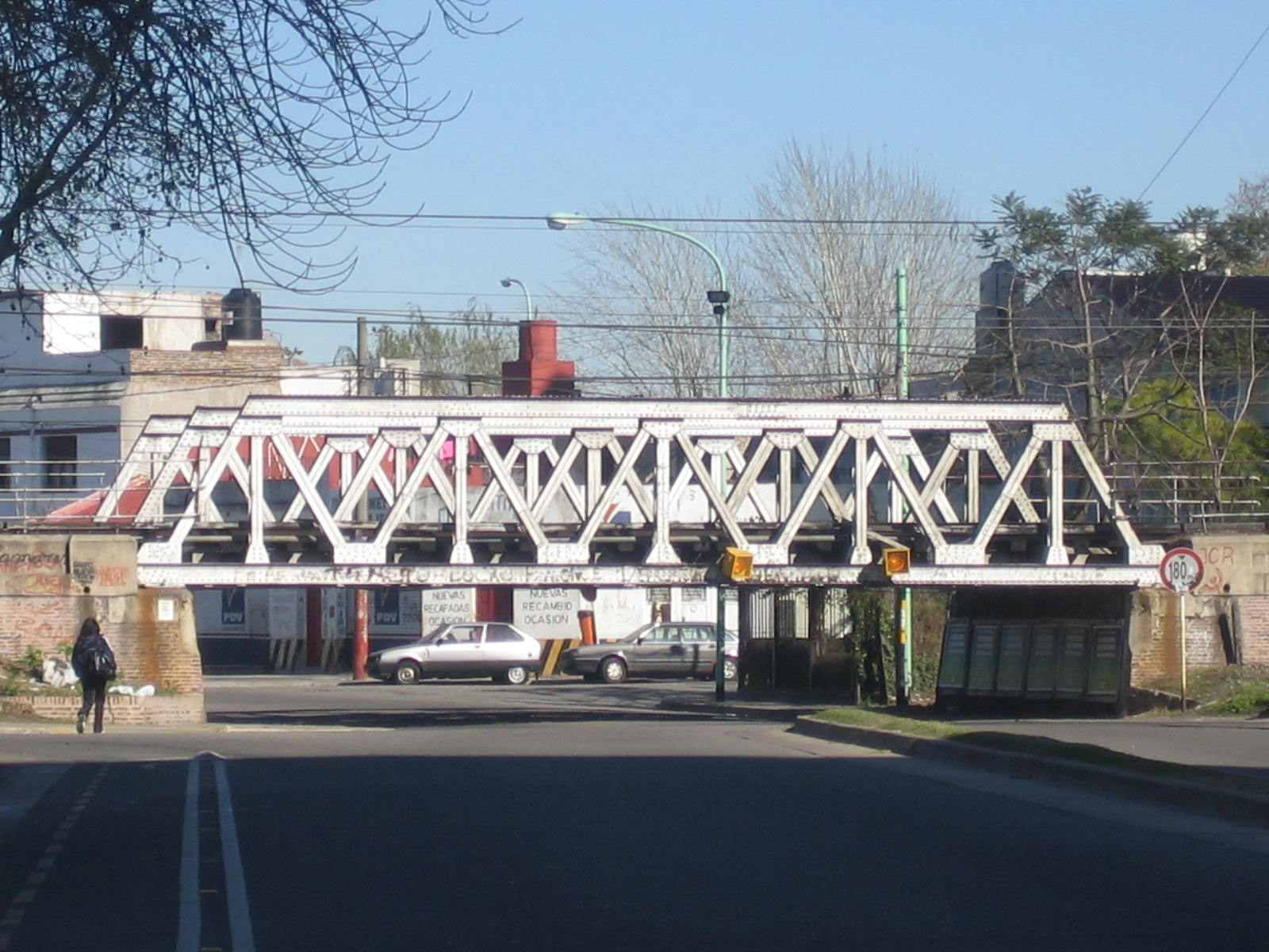 Ruiz Huidobro bridge - Buenos Aires - Argentina